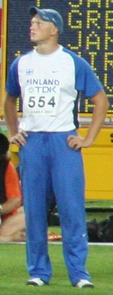 World Athletics Championships 2007 in Osaka - participants in the final of the men's Javelin competition